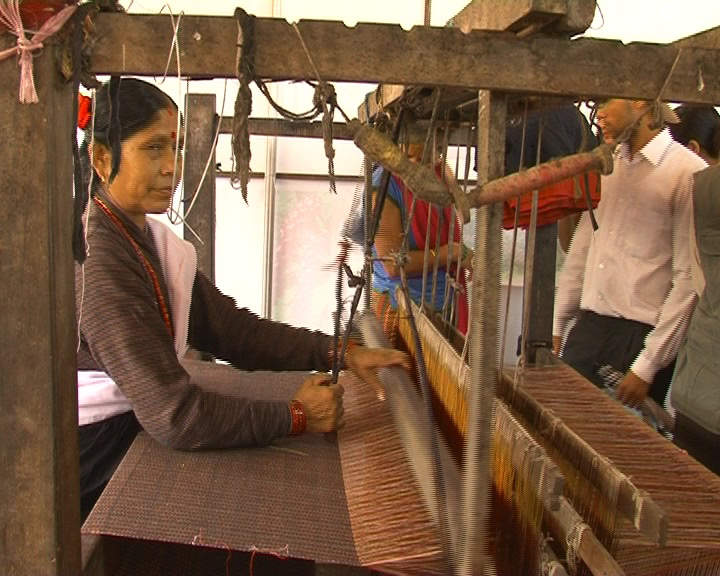 manual loom in Nepal